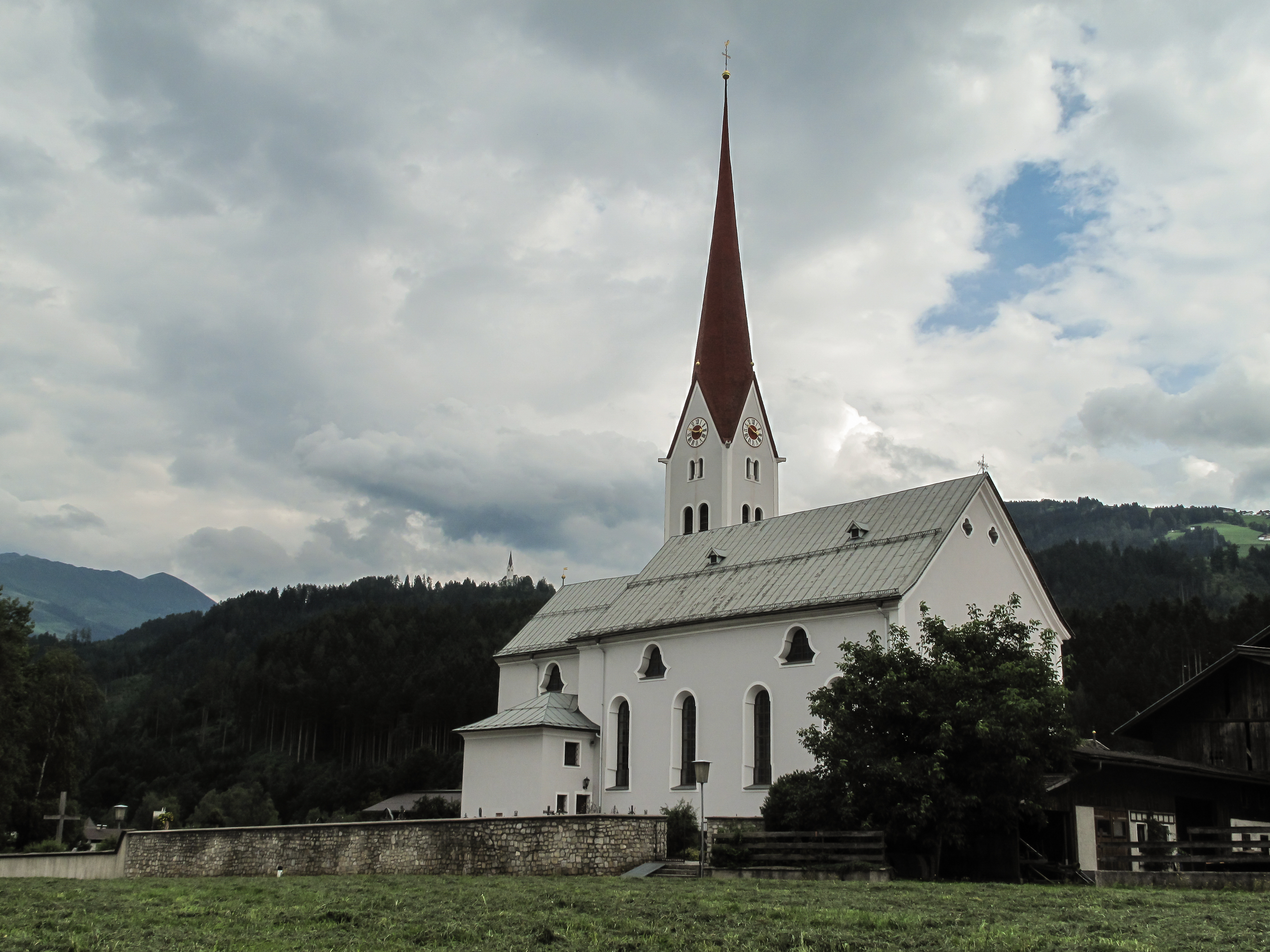 Weer, church: Pfarrkirche Sankt Gallus